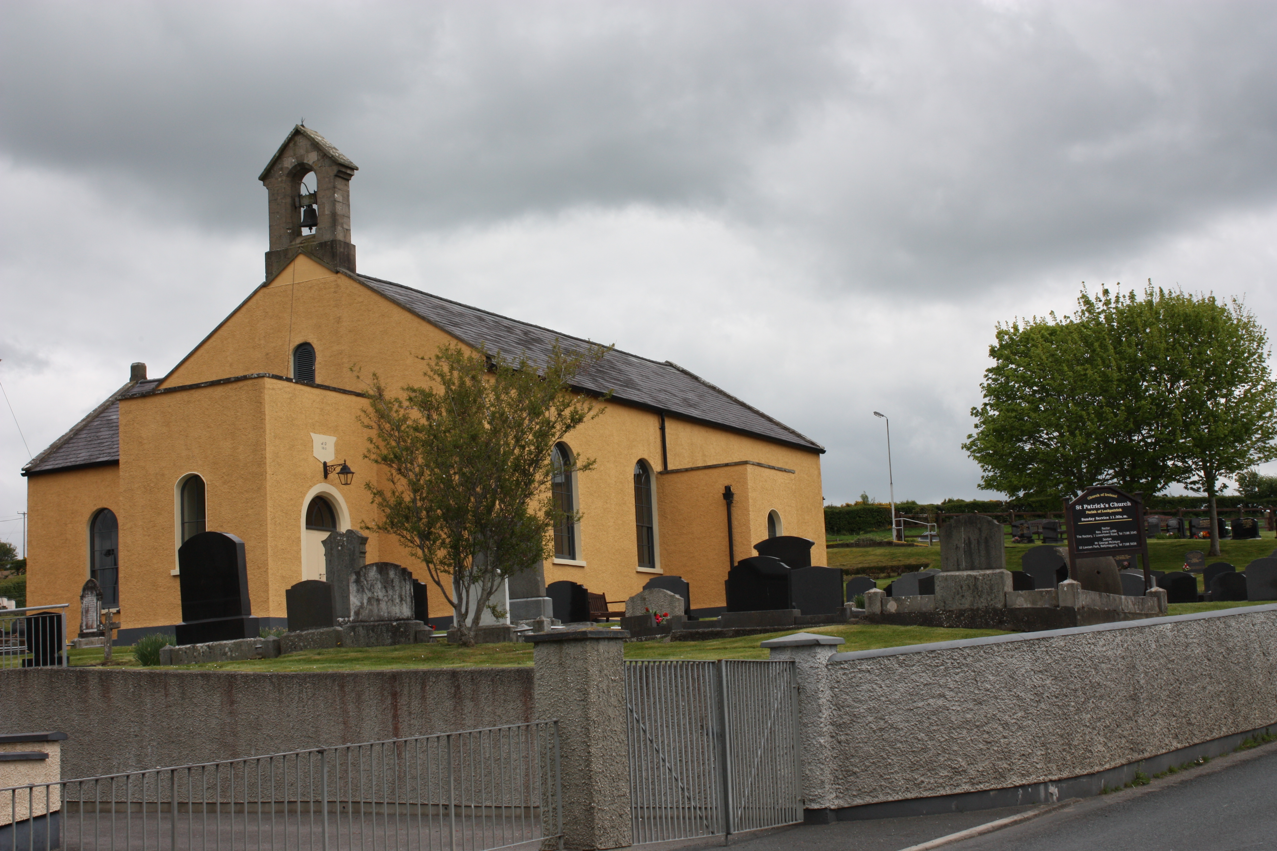 St Patrick's (Church of Ireland) Church, Leckpatrick Road, Ballymagorry, County Tyrone, Northern Ireland, May 2010